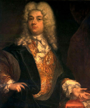 Portrait of contralto castrato singer Senesino, or by his birth name Francesco Bernardo